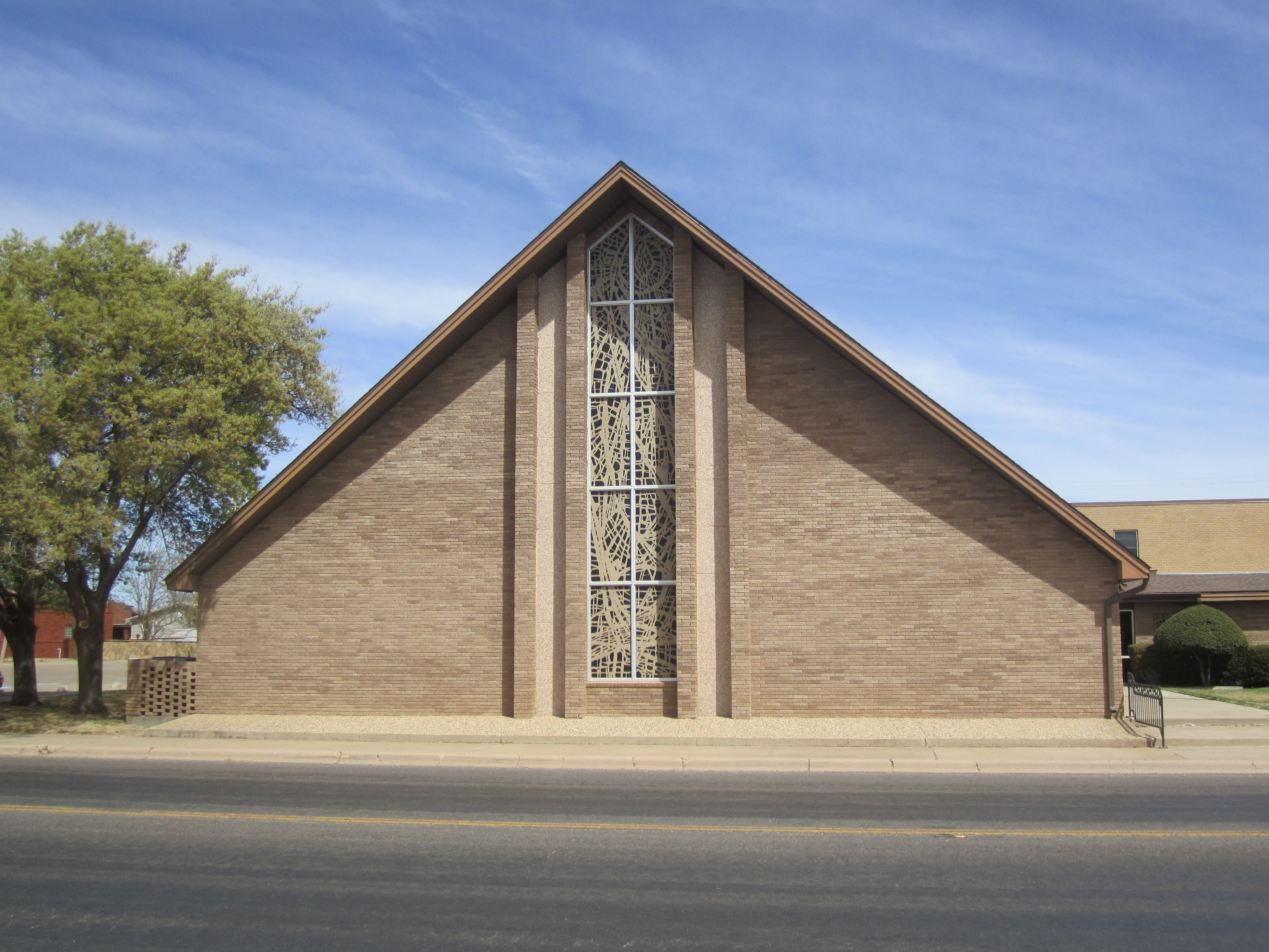 I took photo with Canon camera in Tahoka, TX.